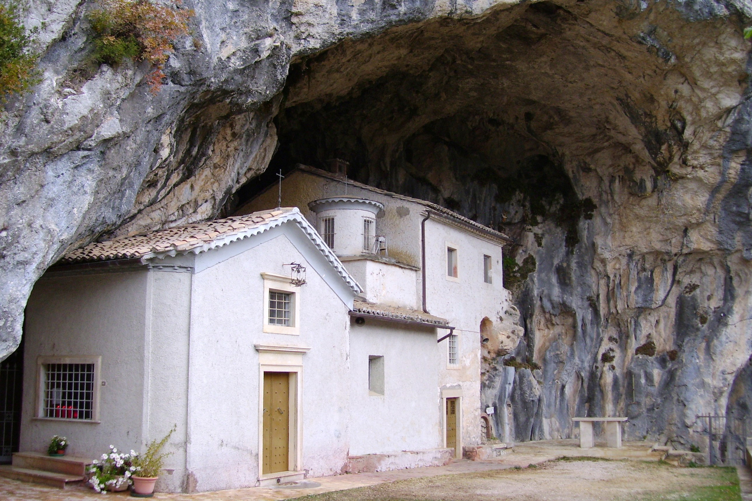 Collepardo, Sanctuary of the Madonna delle Cese.